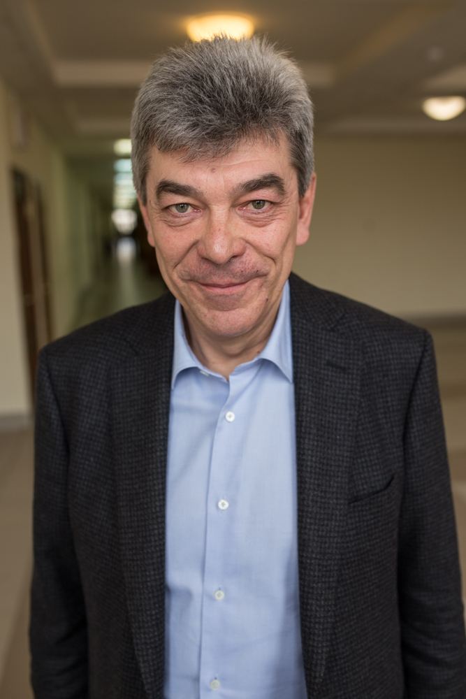 Ivan I. Tuchkov, the Dean of the Department of History of the Moscow State University (since 2015).